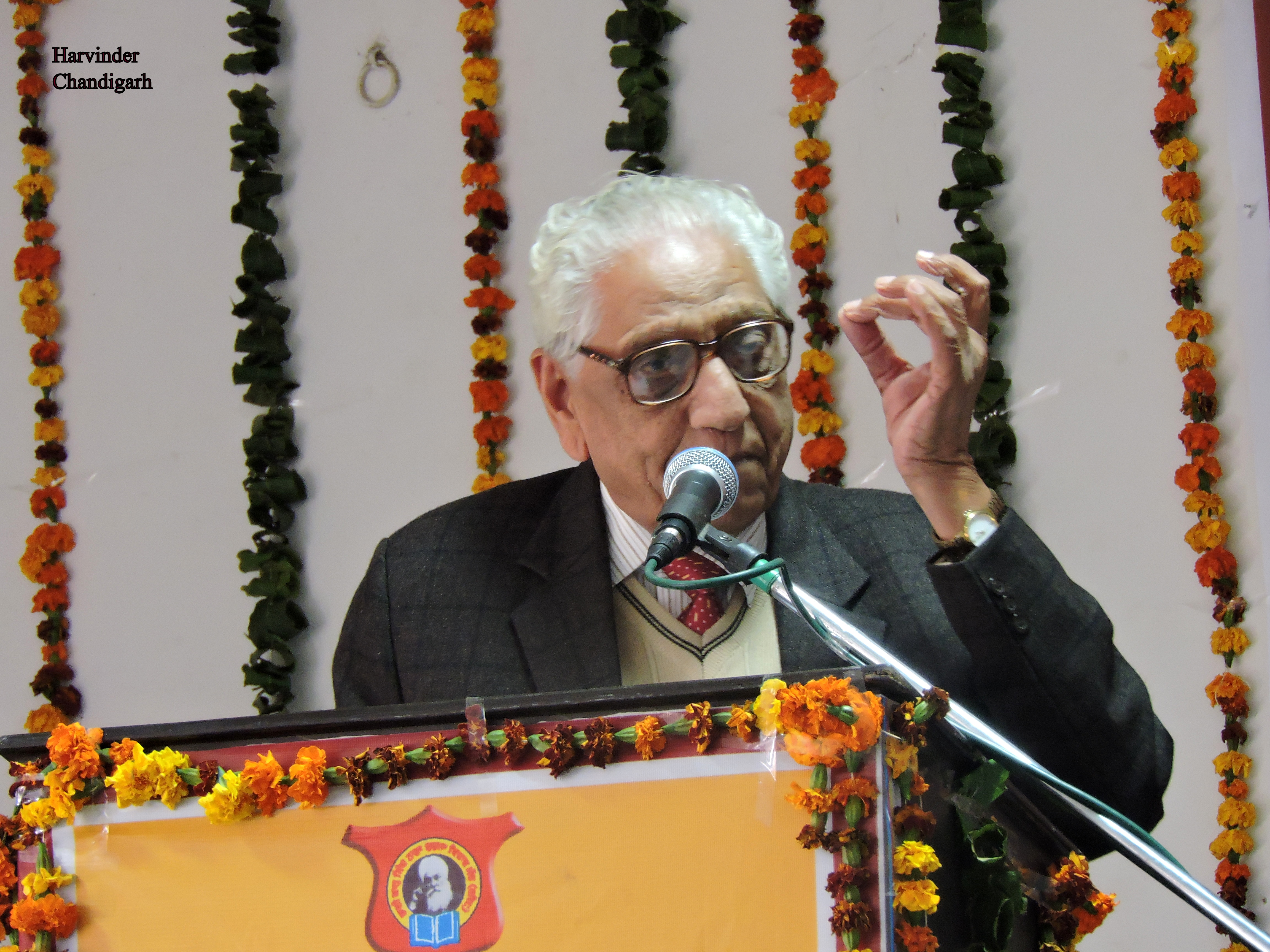 Sri Ram Arsh, Punjabi language poet